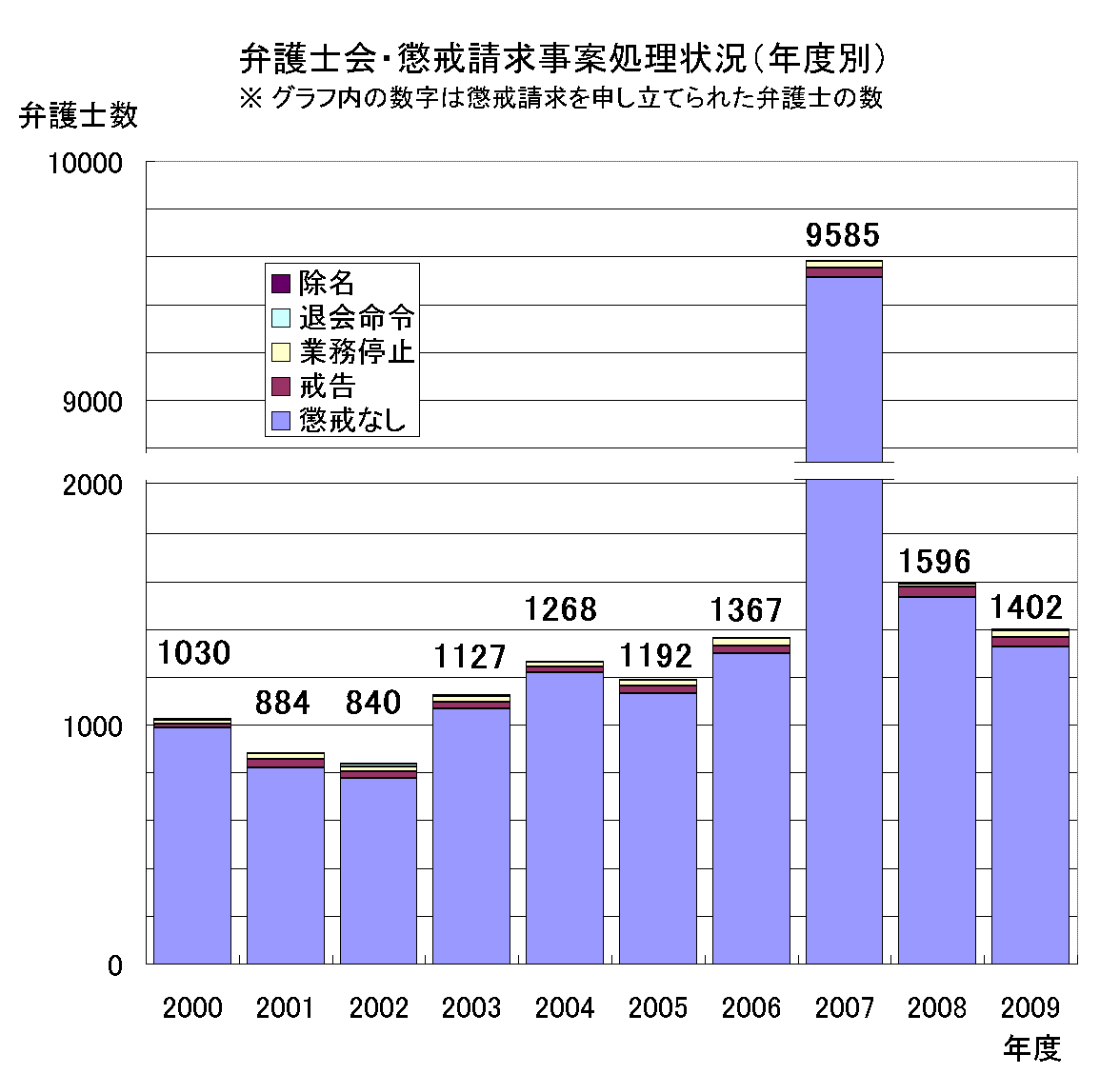 The chart for number of disciplinary charges against delinquency attornies in 2000-2009 in Japan, and the amount of the dicipline by The Dicipline Commitee of JFBA(Japan Federation of Bar Associations). The fact is that it is extremely rare that attorneys got disciplined from the Dicipline Commitee. (The number in the chart are the amount of the charges. Regardless of the number of charges, the average rate of dicipline by the Commitee, is less than 3 percent. There were several cases exist that the Discipnary Commitee have accused of violation of human rights by the complainants). Before this Committie was established, for example when the Lawyer's Law was enacted in 1893, the Disciplinary Court was summoned against delinquency attornies.